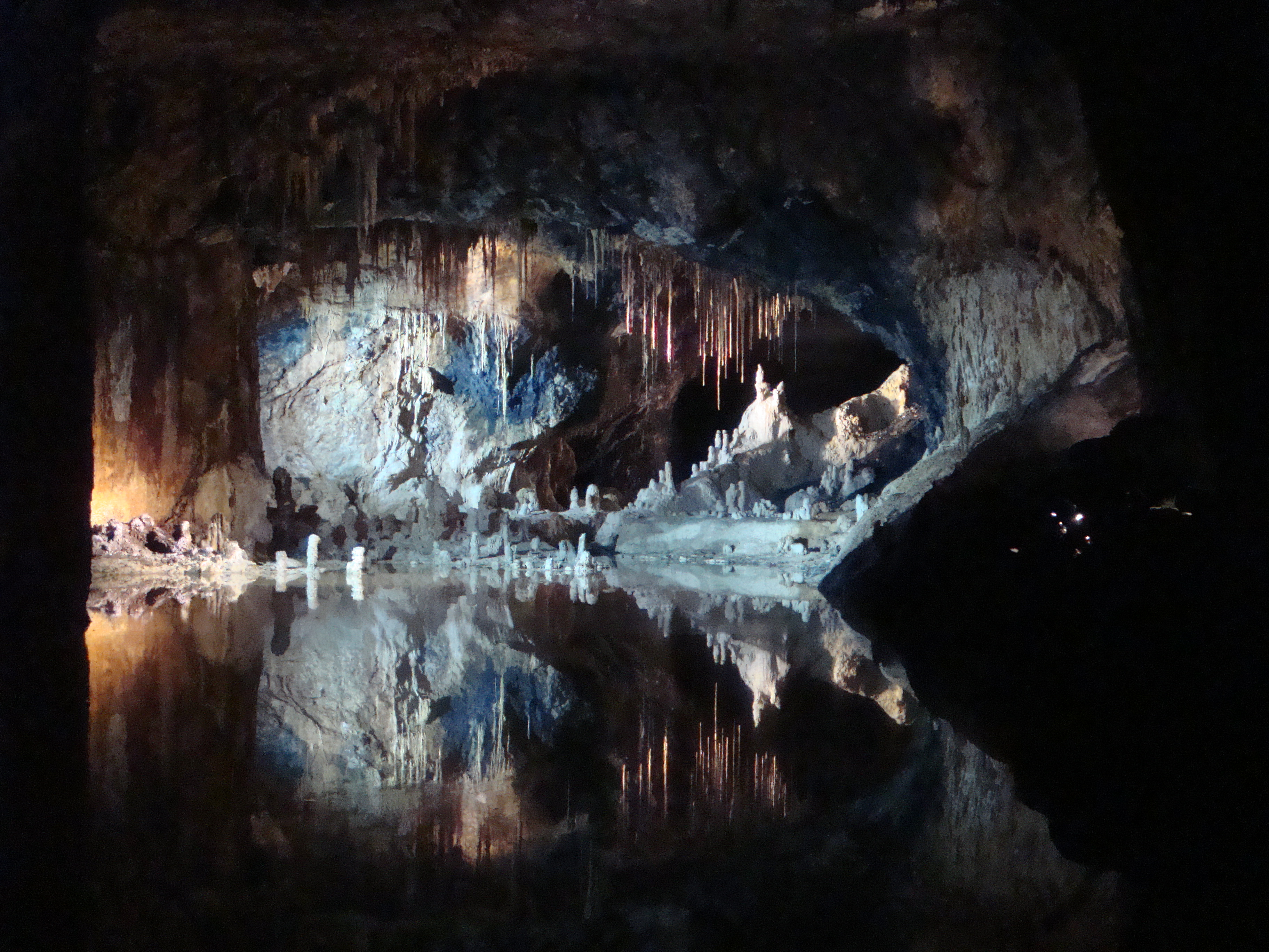 Old mineworkings at Saalfeld, Thuringia, Germany